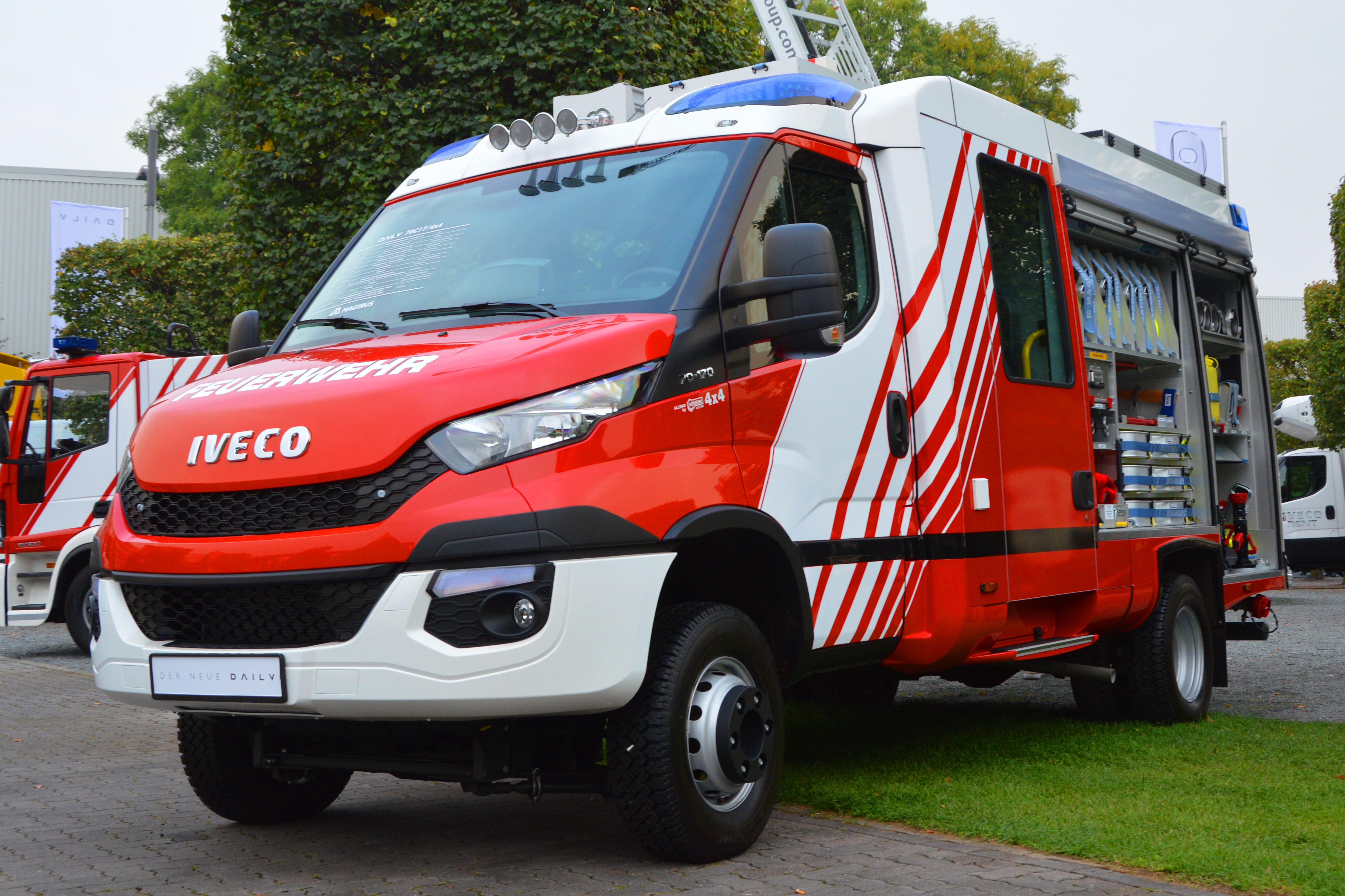 Iveco Daily (Sixth generation). 4x4 Fire engine. Photo taken at exhibition IAA 2014 in Hanover, Germany